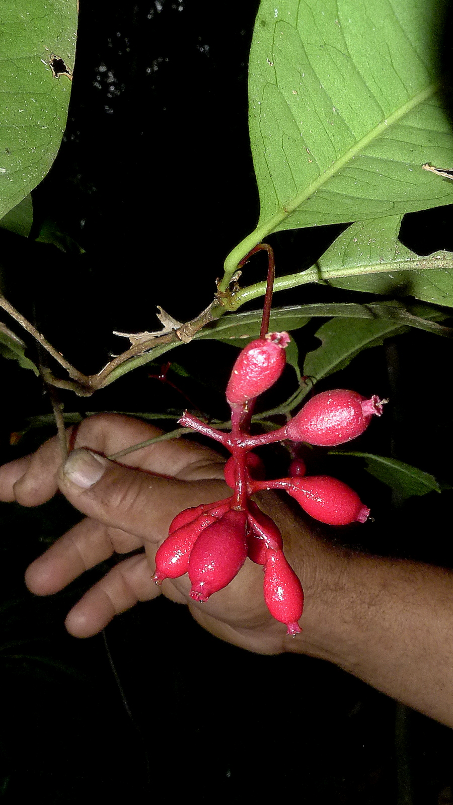 Neea sp., Nyctaginaceae, Atlantic forest, northeastern Bahia, Brazil